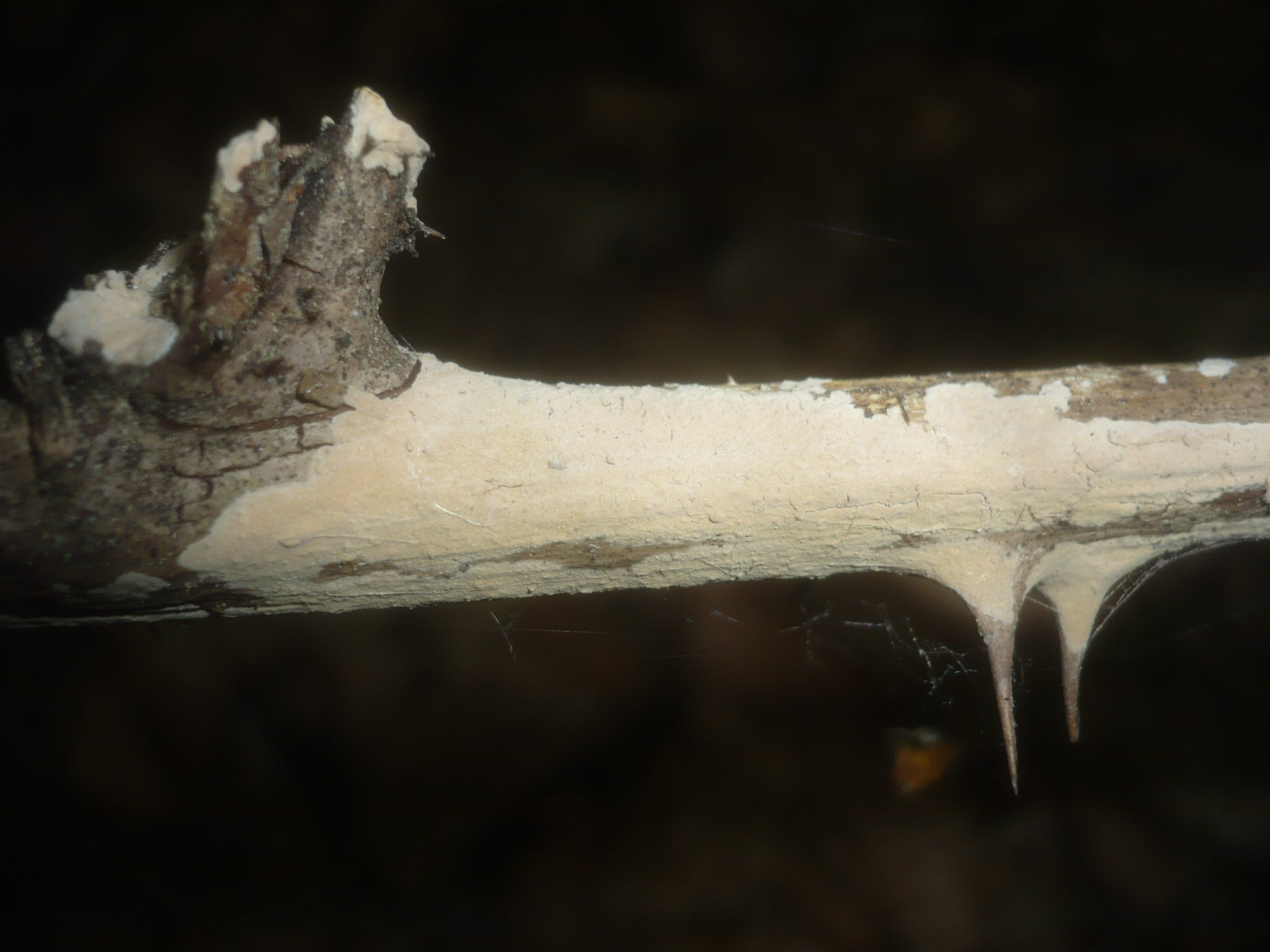 Aleurodiscus aurantius (Pers.) J. Schröt. Image location: Hölle, Mattersburg, Bezirk Mattersburg, Burgenland, Austria Recognized by sight: on brambles Used references Based on microscopic features For more information about this, see the observation page at Mushroom Observer.